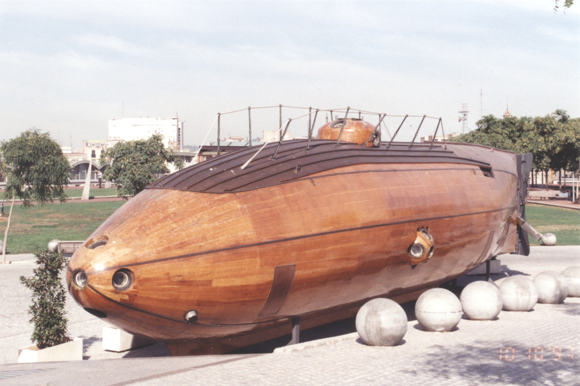 Ictineo II replica in Barcelona, Spain, 1997